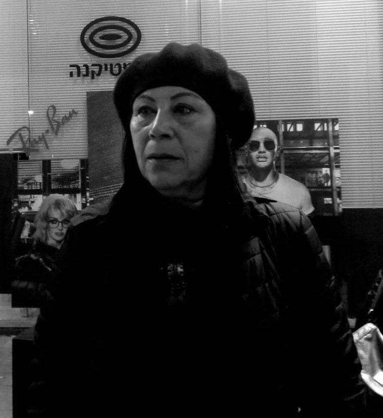 Hannah Kim in a demonstration in Petah Tikva.